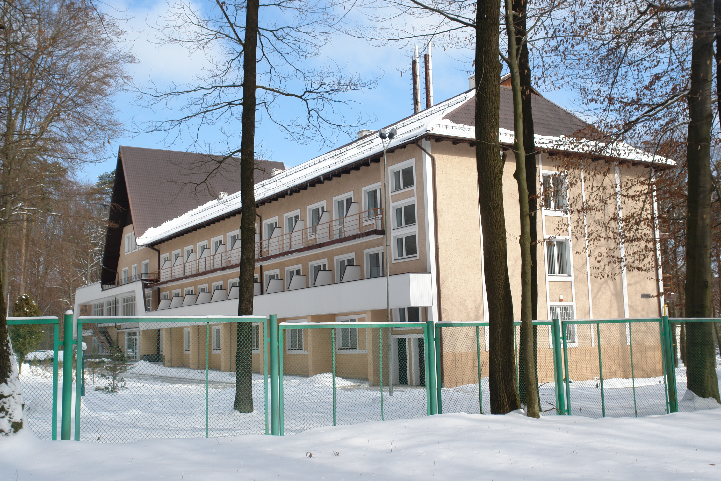 Patriarch Josyf Slipyj's Retreat Centre in Bryukhovychi (near Lviv, Ukraine)